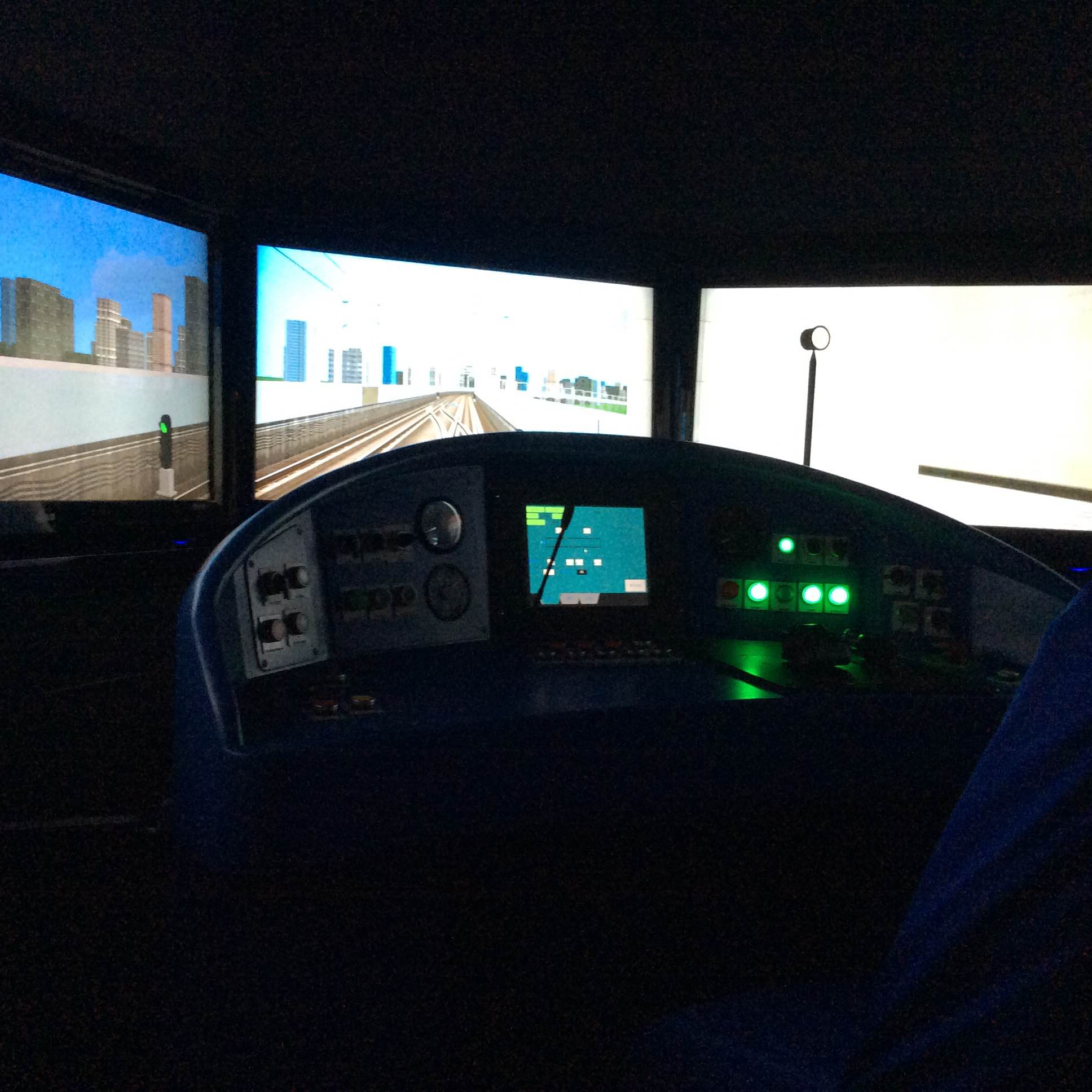 This picture was taken in the Shanghai metro museum simulator. It depicts the simulator.